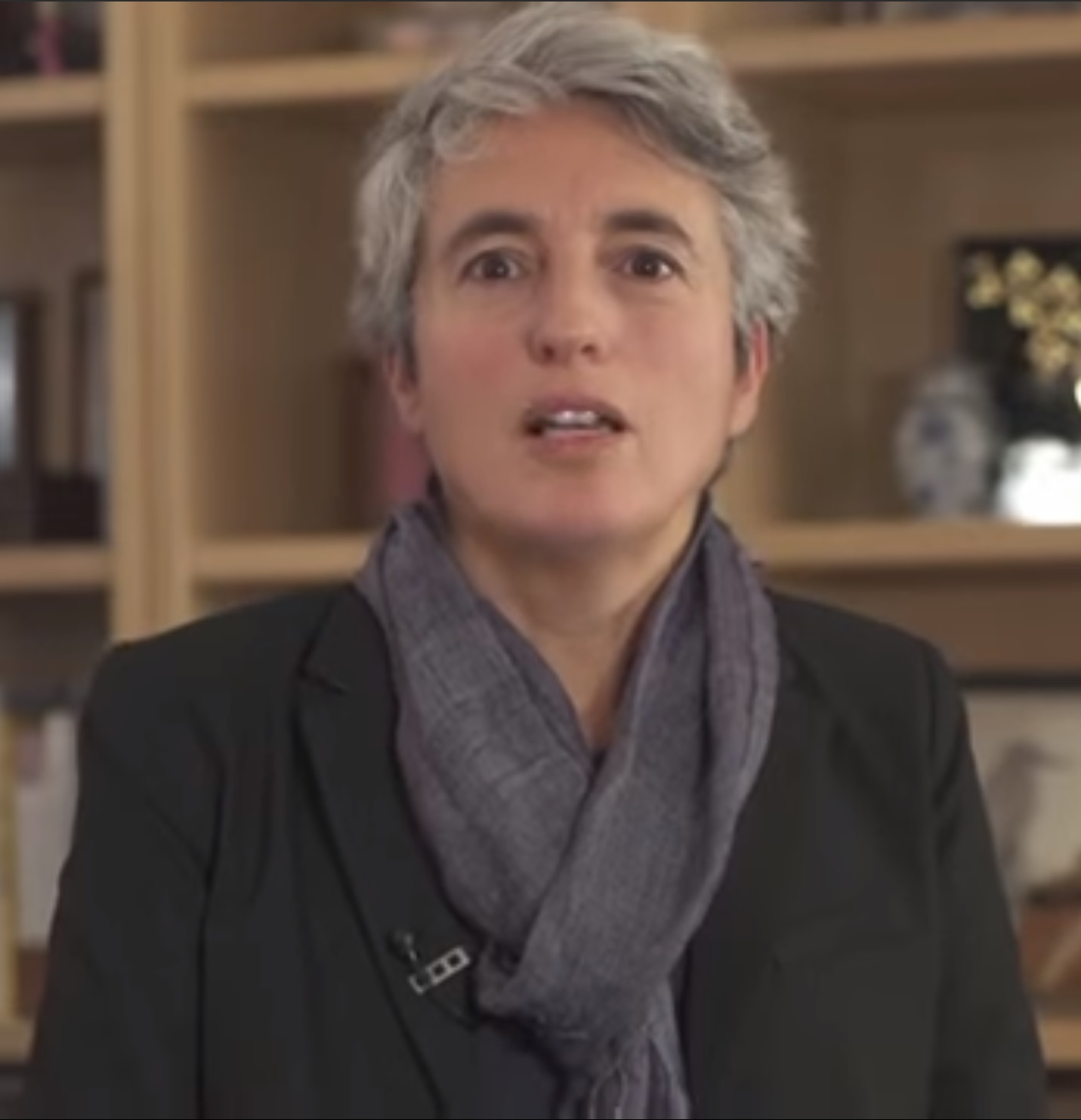 London School of Hygiene and Tropical Medicine (LSHTM) Technology Enhanced Learning team course "Ebola in Context: Understanding Transmission, Response and Control" presented by Professor Judith Glynn, the Lead Educator for the course.